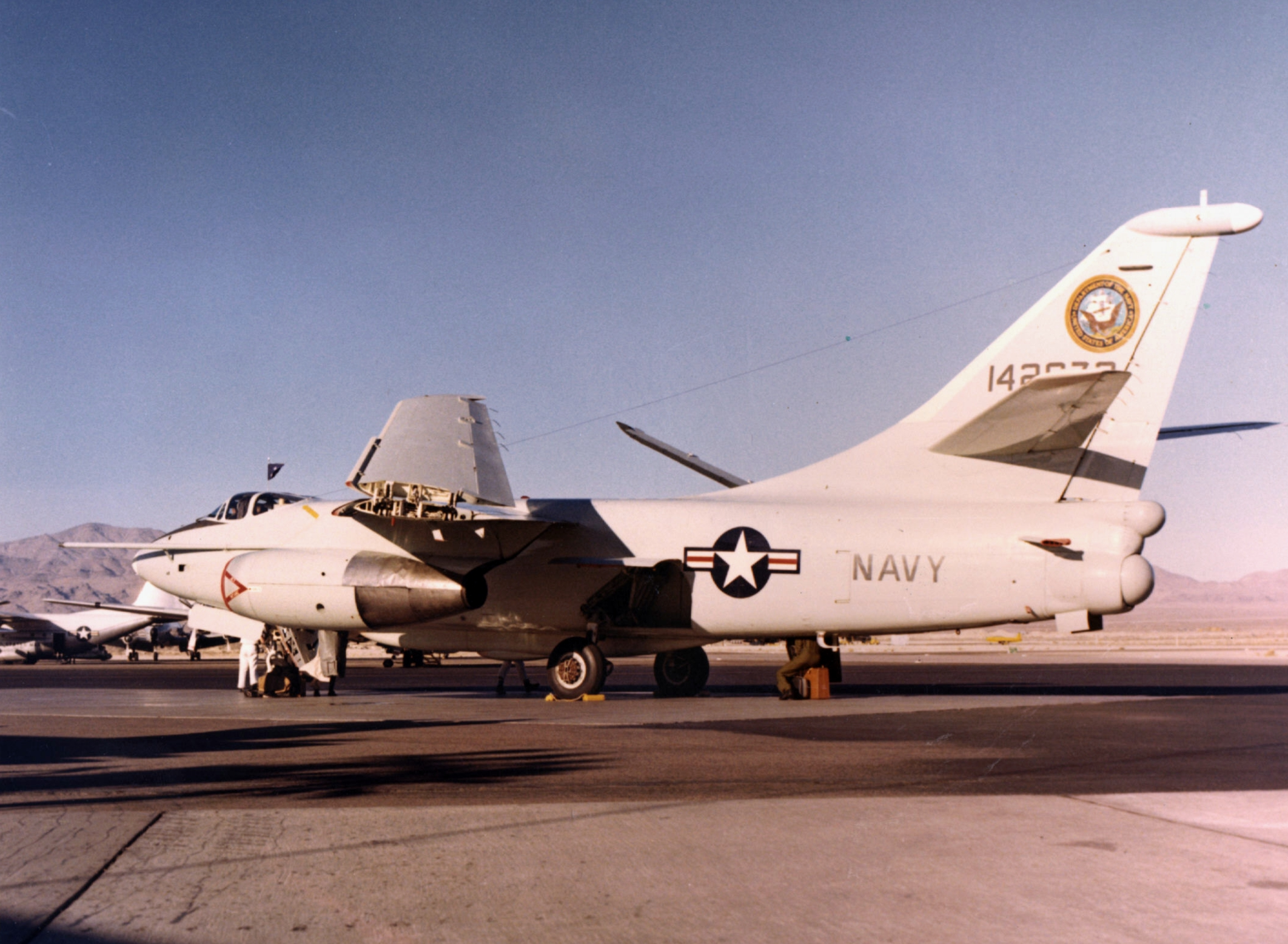 The only U.S. Navy Douglas VA-3B Skywarrior (BuNo 142672) VIP-transport built on the ground at Nellis Air Force Base, Nevada (USA). It was used by the Chief of Naval Operations until retired to the MASDC as 2A0098 on 9 April 1974. Note the Admiral's flag above the cockpit. Note:LCdr. Dwight I. Worrell flew this aircraft between 1968 and 1971. He flew the CNO and other high ranking officials around the world.